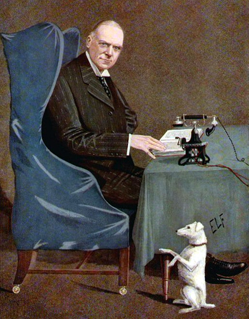 Vanity Fair caricature of barrister Stephen Coleridge (1854–1936).